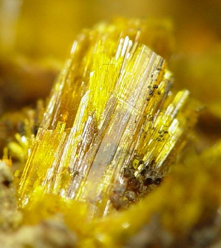 Becquerelite, Fourmarierite, Masuyite, Uranophane - alpha Locality: Shinkolobwe Mine (Kasolo Mine), Shinkolobwe, Central area, Katanga Copper Crescent, Katanga (Shaba), Democratic Republic of Congo (Zaïre) (Locality at ) Size: small cabinet, 6.2 x 5.8 x 3.1 cm Becquerelite with Masuyite, Fourmarierite and Uranophane This large, rich specimen has THREE species for which this is the type locality: Masuyite (in red spherical aggregates), Fourmarierite (dark red/umber crystals underlaying the BQ and embedded in the matrix), and superb, large sprays of Becquerelite with crystals to a whopping 5mm . The matrix is uraninite. Many are freestanding! In person, this is a beautiful specimen worthy of a display shelf, but its also an important combinatorial piece.